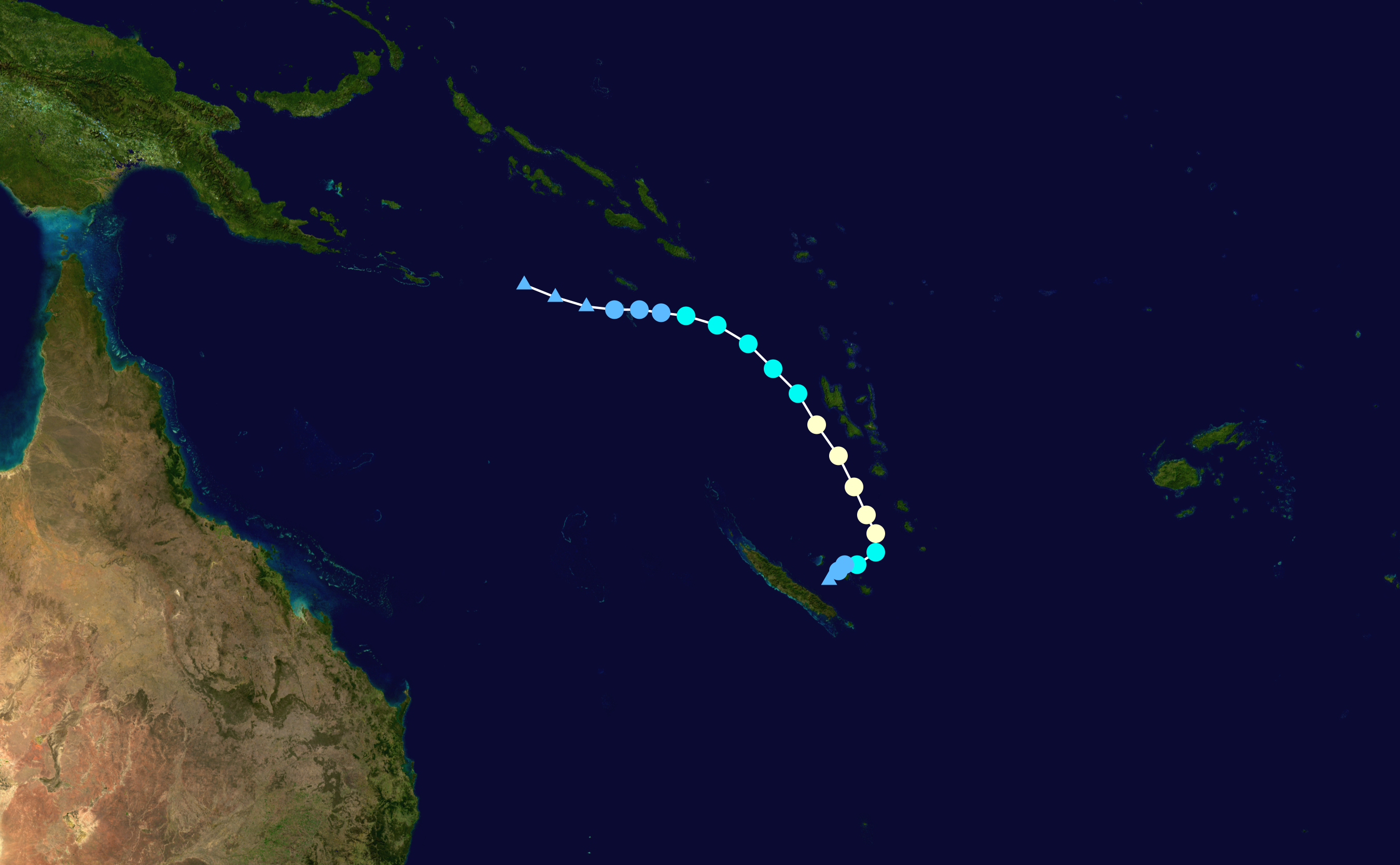 Track map of Tropical Cyclone Becky of the 2006-07 South Pacific cyclone season. The points show the location of the storm at 6-hour intervals. The colour represents the storm's maximum sustained wind speeds as classified in the Saffir–Simpson scale (see below), and the shape of the data points represent the nature of the storm, according to the legend below. Saffir–Simpson scale Tropical depression≤38 mph≤62 km/h Category 3111–129 mph178–208 km/h Tropical storm39–73 mph63–118 km/h Category 4130–156 mph209–251 km/h Category 174–95 mph119–153 km/h Category 5≥157 mph≥252 km/h Category 296–110 mph154–177 km/h Unknown Storm type Tropical cyclone Subtropical cyclone Extratropical cyclone / Remnant low / Tropical disturbance / Monsoon depression